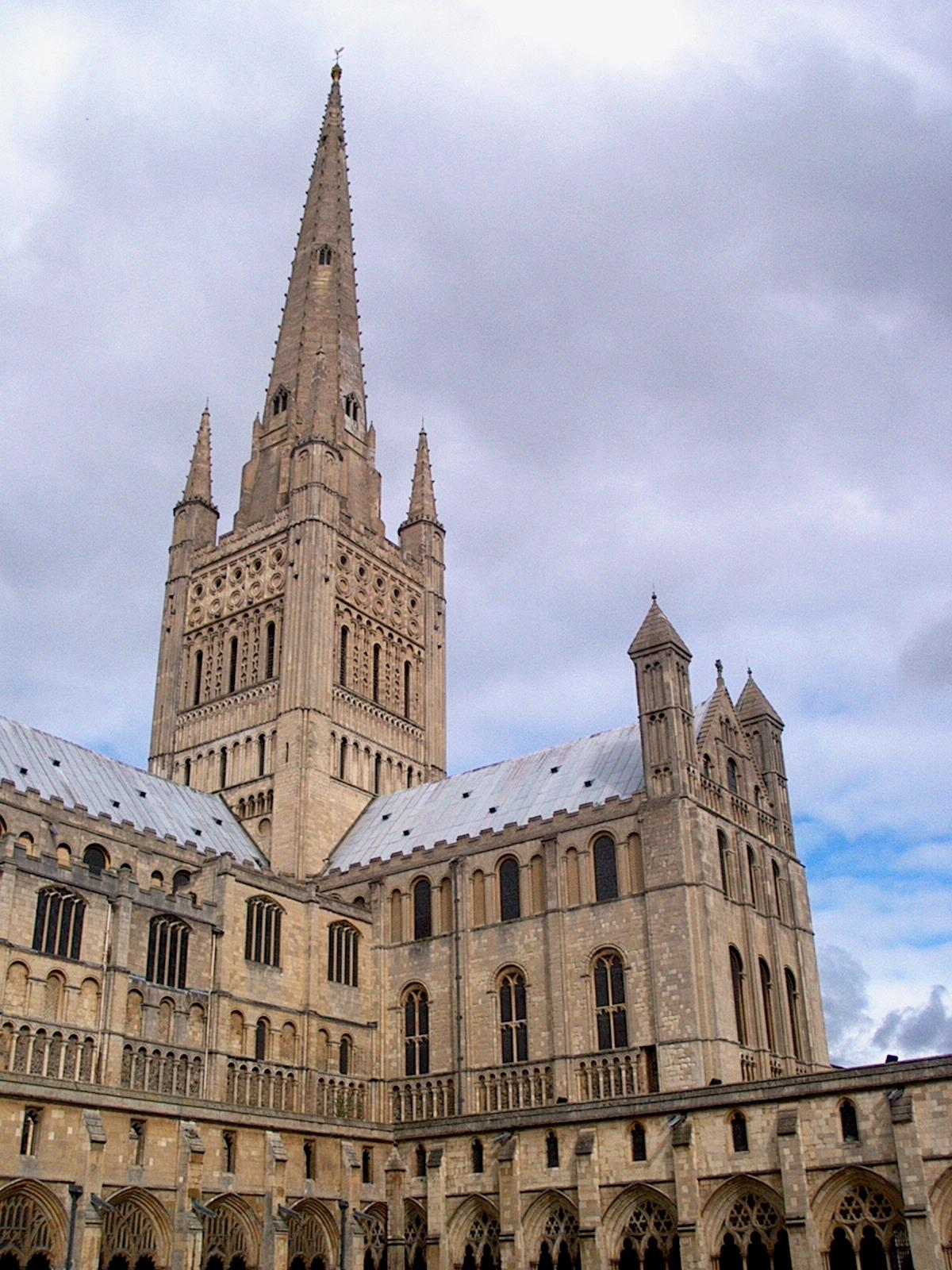 Central tower, spire and south transept of Norwich Cathedral, Norfolk, England